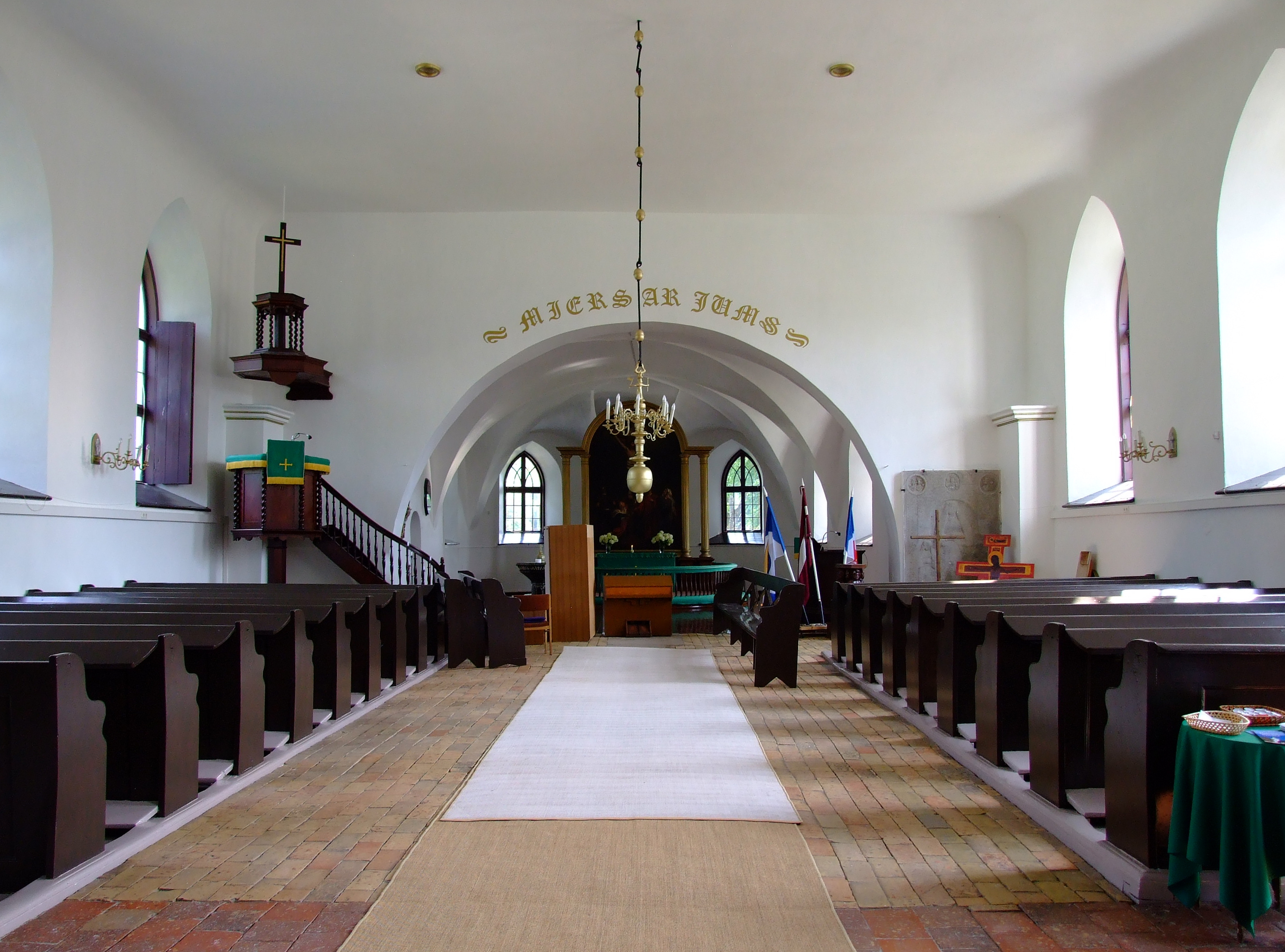 The view on sanctuary of Evangelical Lutheran Church of Dobele.